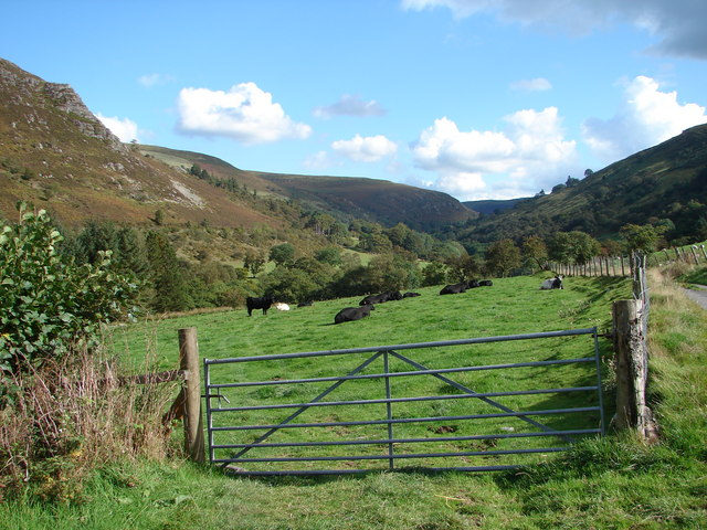 Some contented cattle in Glyn Gwy, 5 km from Dolfach, Powys, Wales.